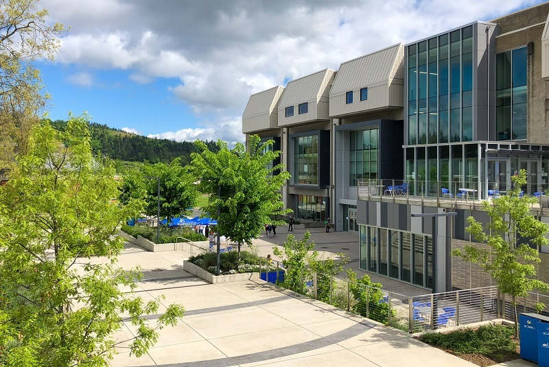 A view of the Dr. Dale P. Parnell Center for Learning and Student Success at Lane Community College in Eugene, Oregon. Dr. Parnell was the institution's first president.